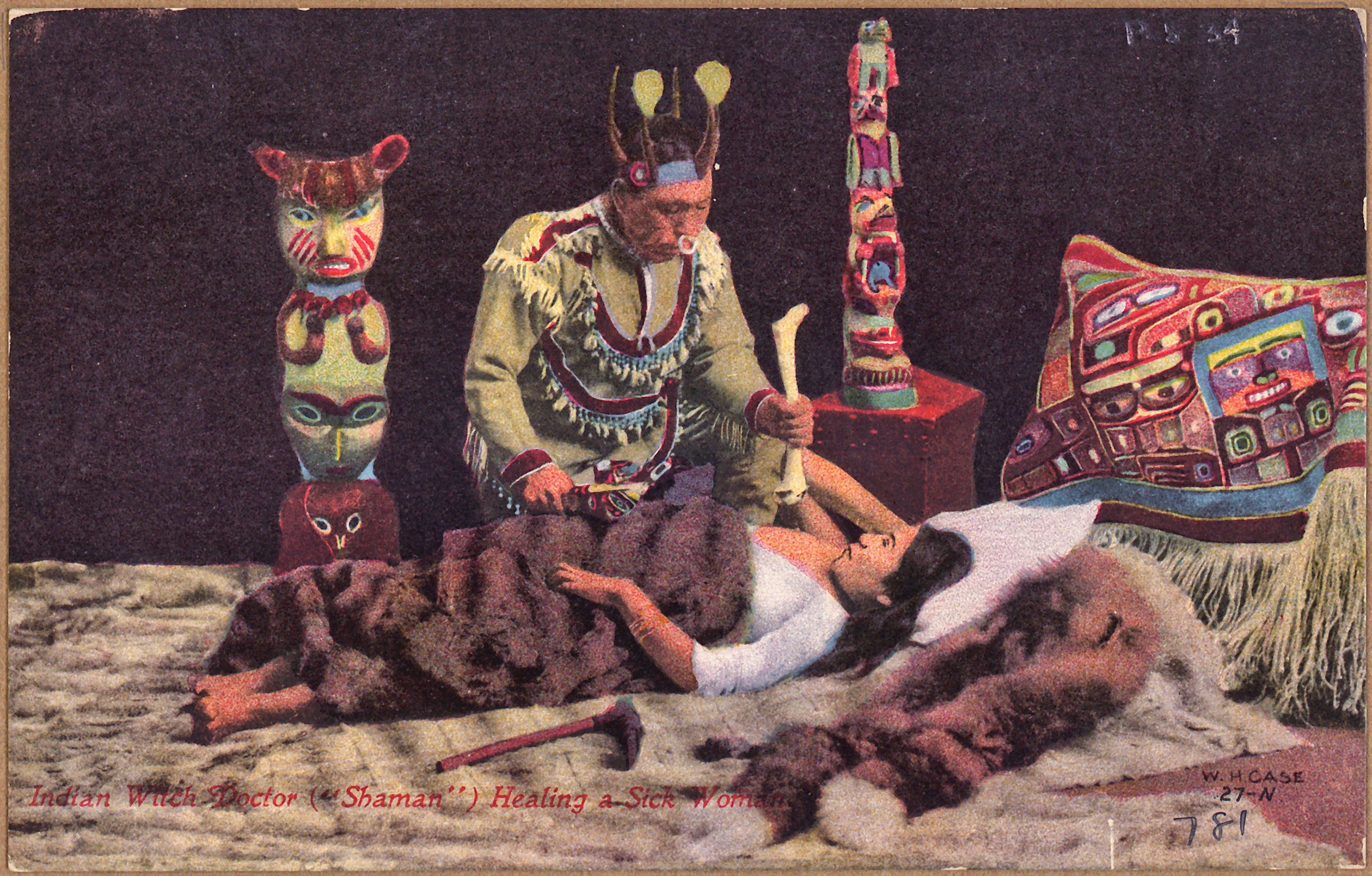 Scope and content: Same photograph used for card in #780. Use of colors differs.